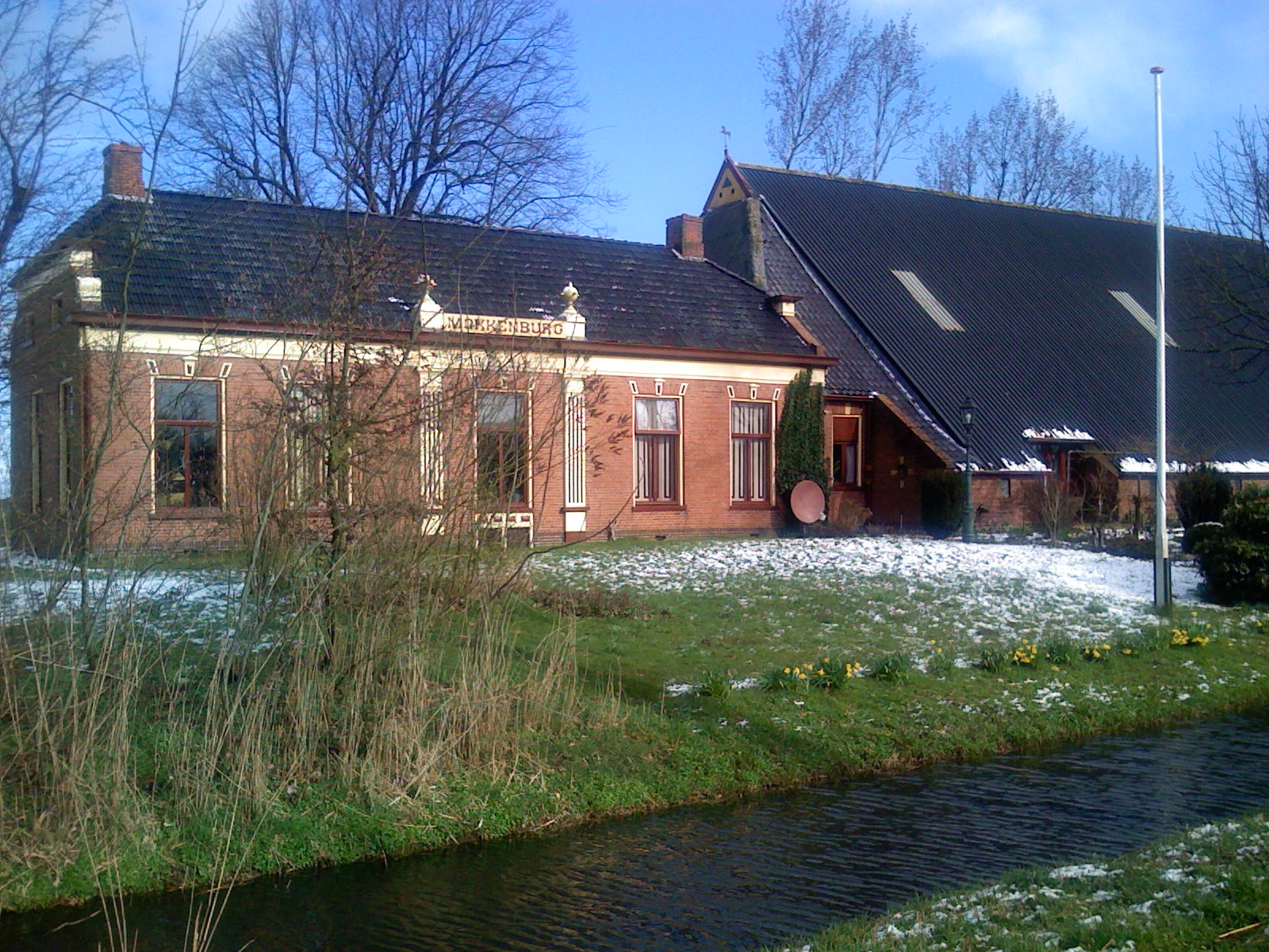 Farm Mokkenburg